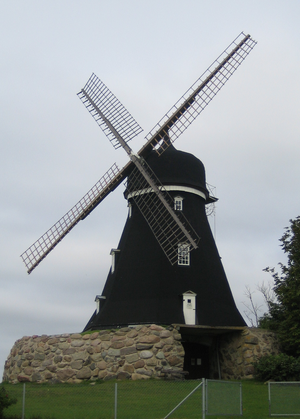 The old windmill in Skivarp, Skåne, Sweden. It was burnt down in 2010.